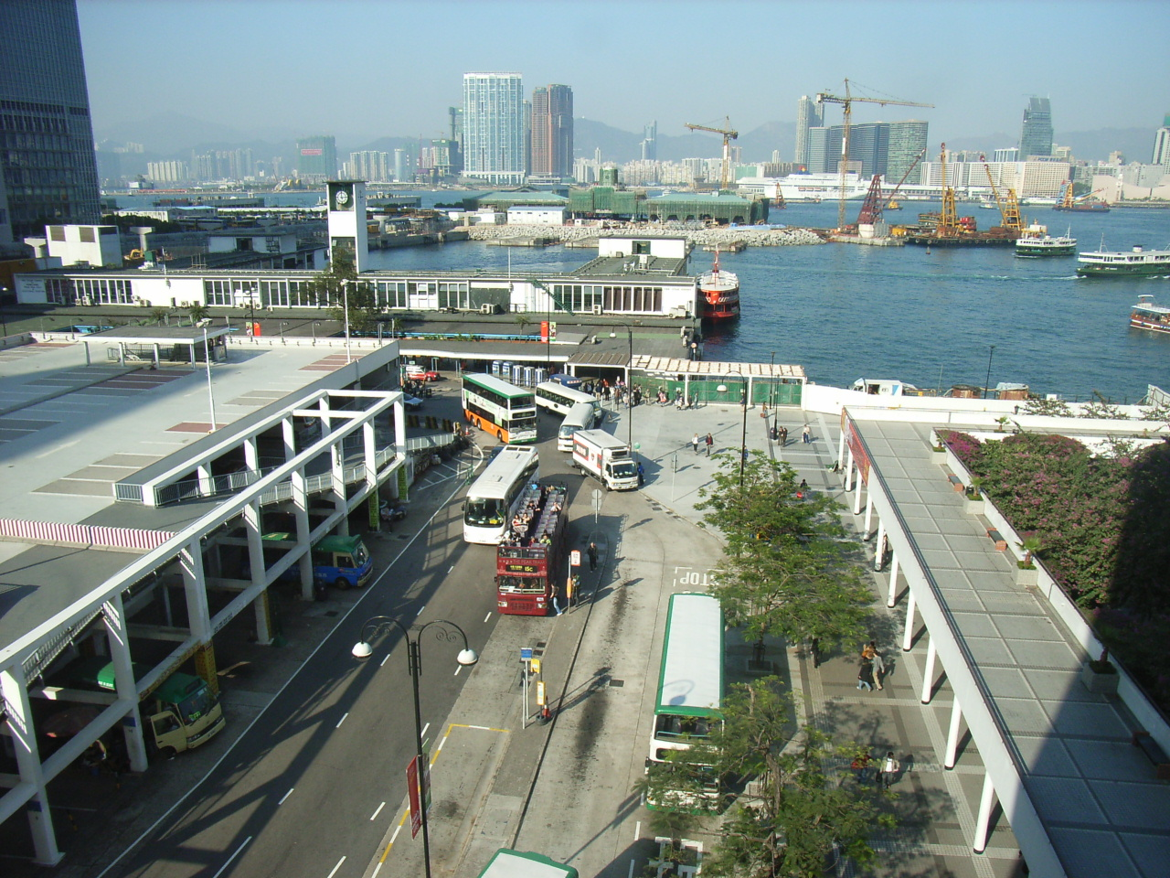 HK seaview from the 9th floor of City Hall, Central, Hong Kong